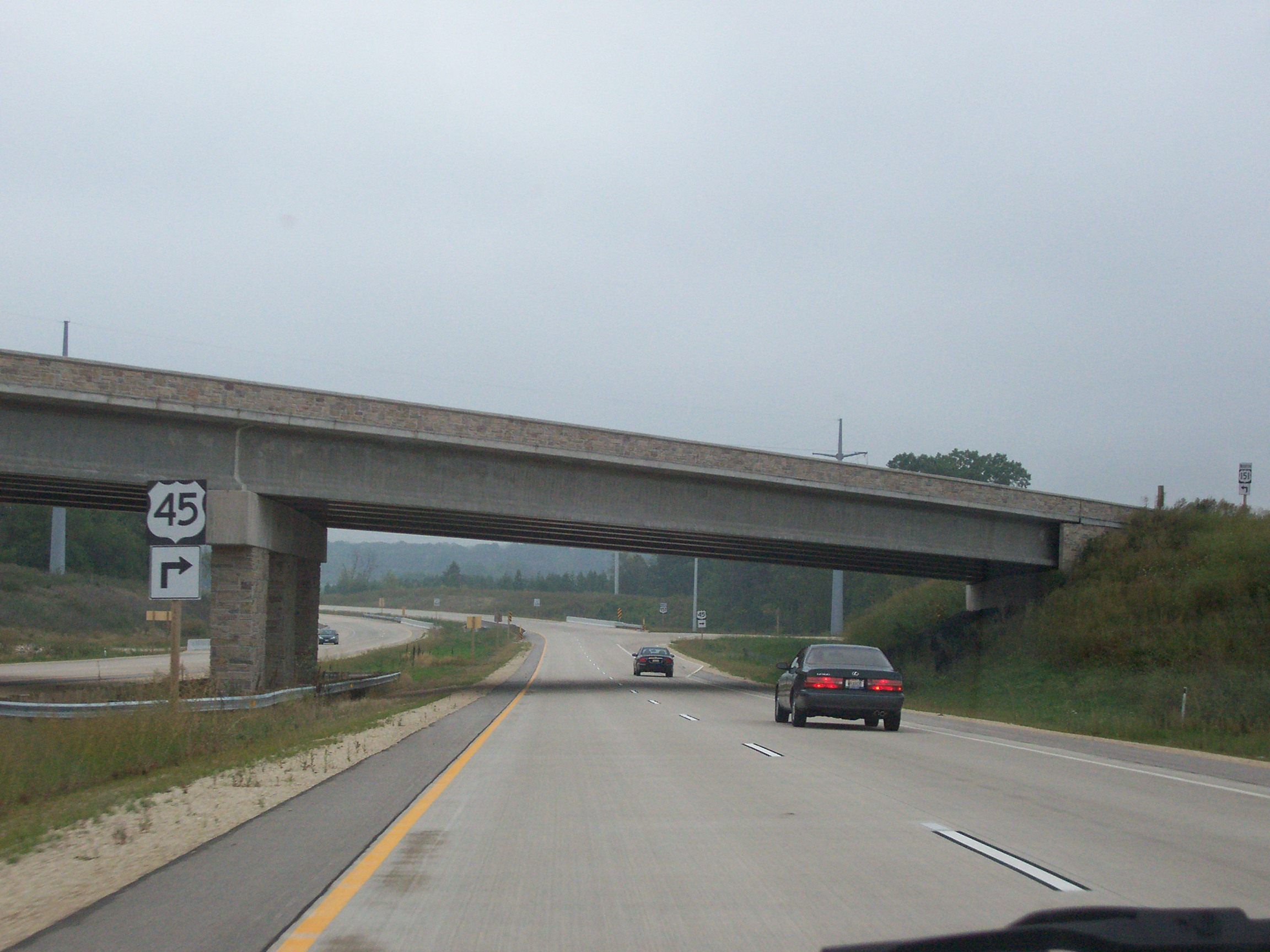 A picture of the U.S. Route 45 exit ramp from U.S. Route 151 in the new (circa 2004) bypass of Fond du Lac, Wisconsin. This image was taken August 24, 2006 by User:Royalbroil Category:Images of Wisconsin highways